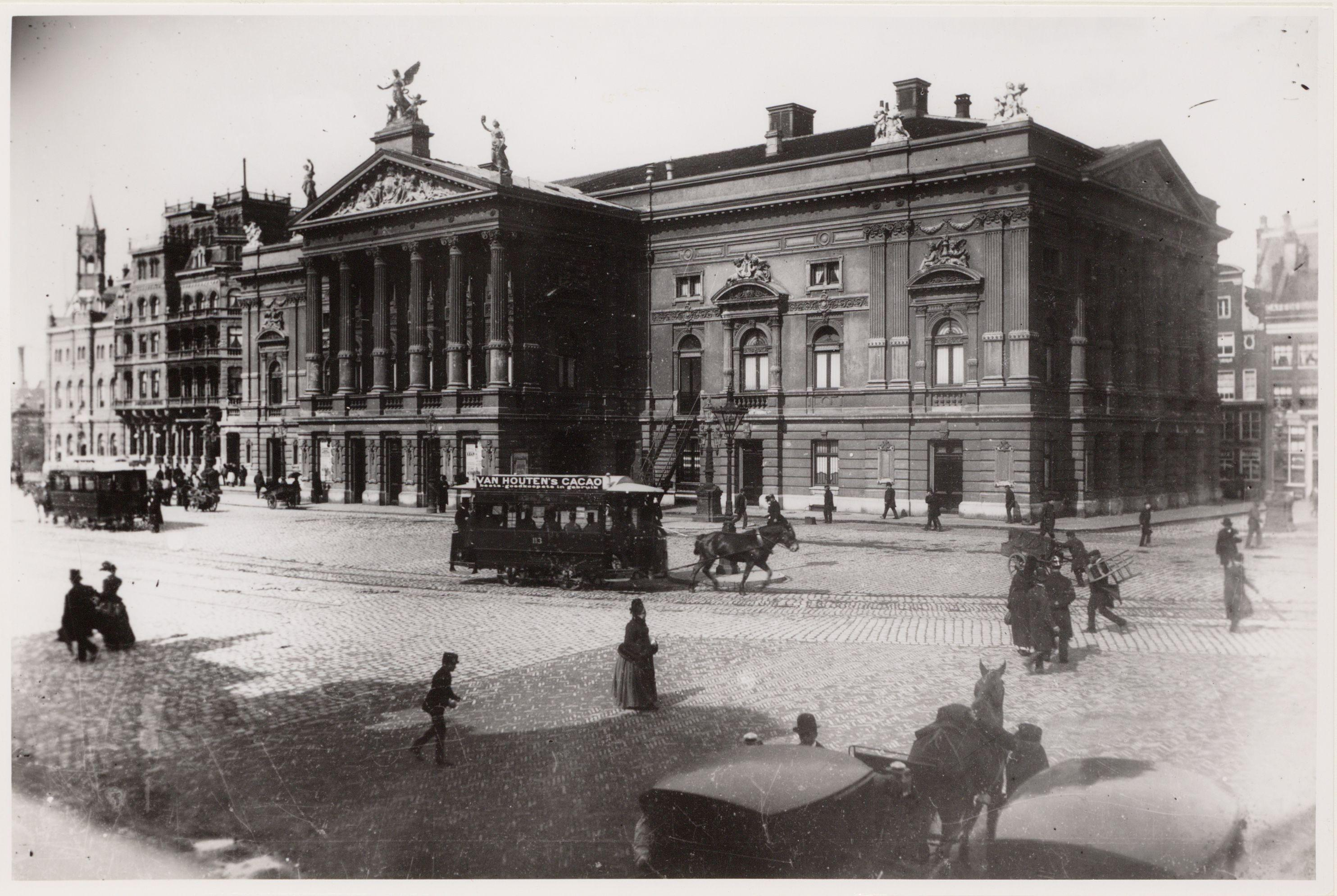 Stadsschouwburg at Leidseplein, Amsterdam. The foreground features a horse-drawn tram.